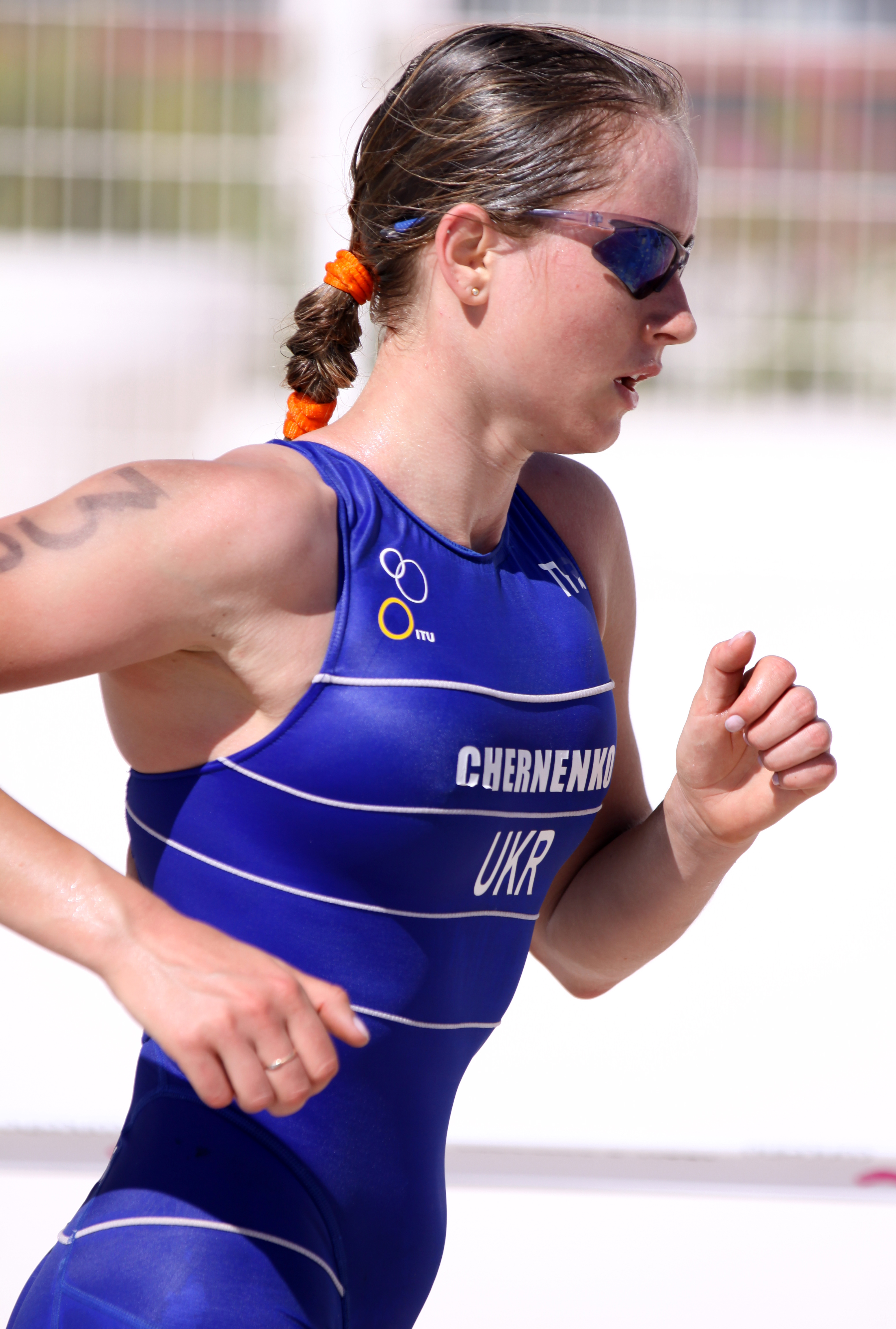 Anastasiya Chernenko (Анастасія Михайлівна Черненко) at the European Cup triathlon in Quarteira, 2011.